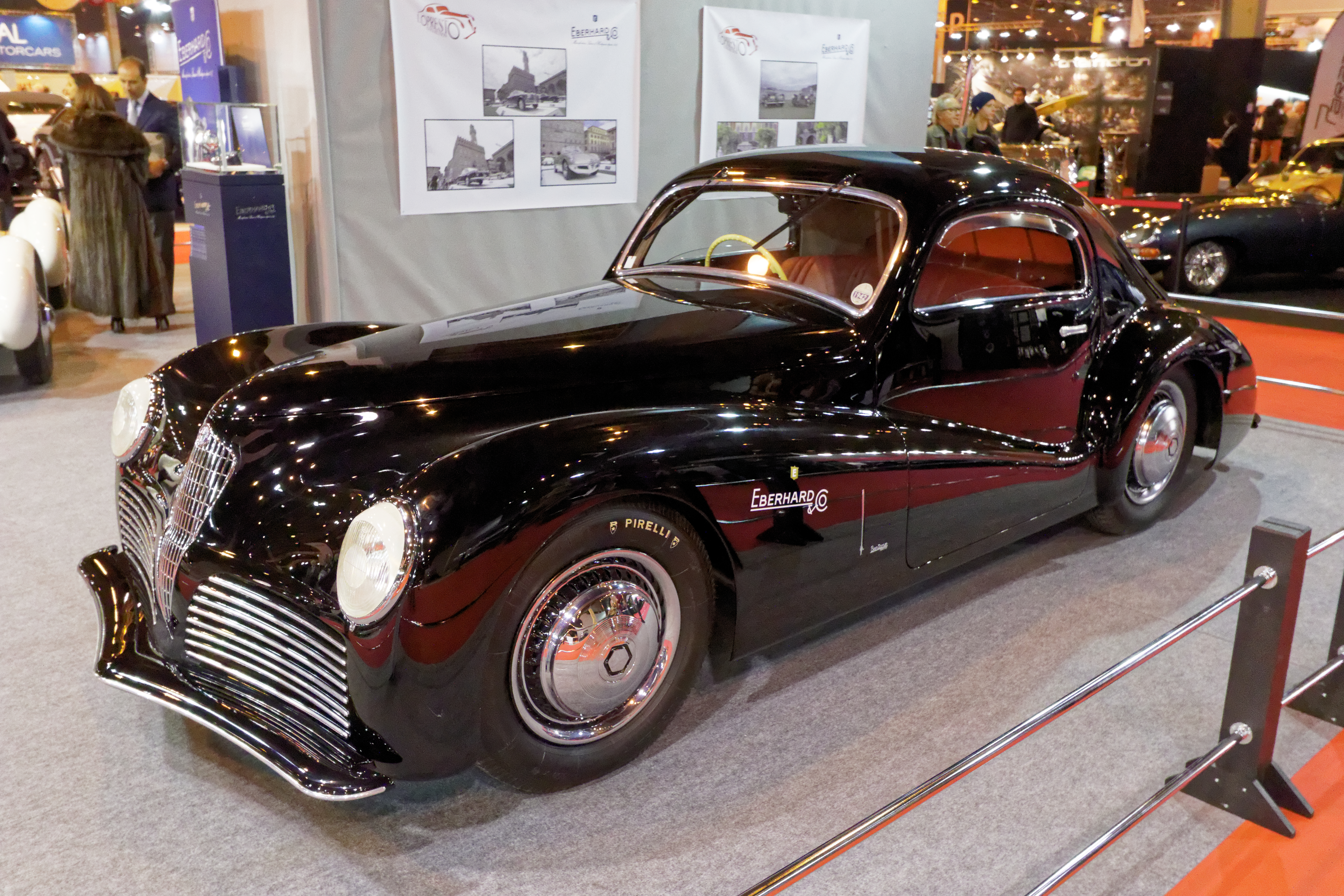 The 1942/3 Alfa Romeo 6C 2500 at Retromobile 2015, showing the Eberhard & Co. logo from the collaboration with its owner Corrado Lopresto